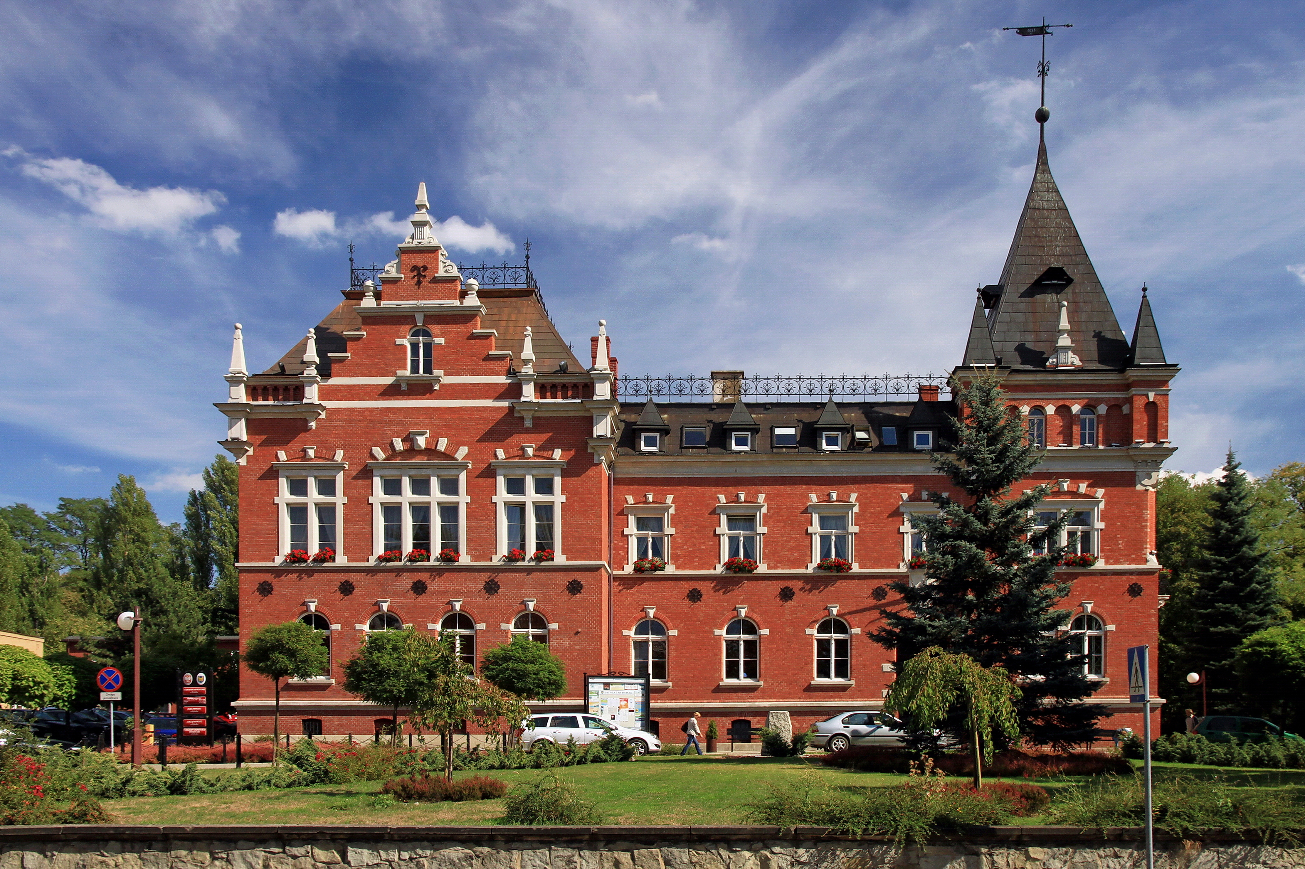 Rybnik, powiat office building, build in 1887